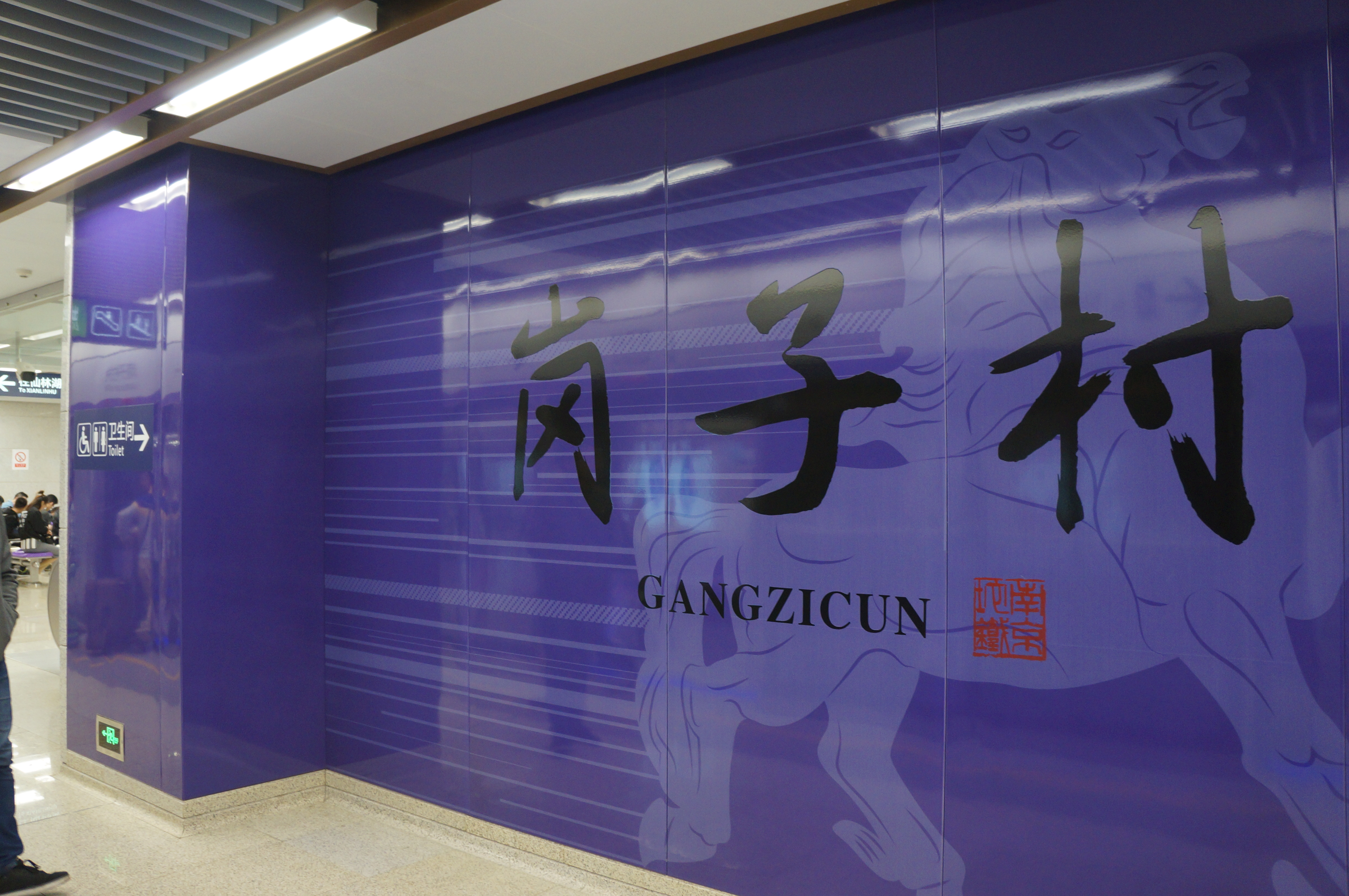 201704 Gangzicun Station, initially Suojincun Station